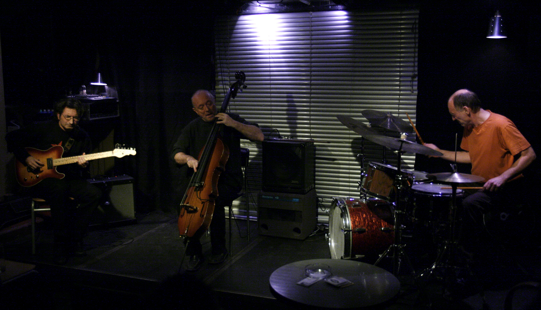 Andy Manndorff (g.), Lisle Ellis (b.) and Wolfgang Reisinger (dr.); session at the Blue Tomato in Vienna (Austria).